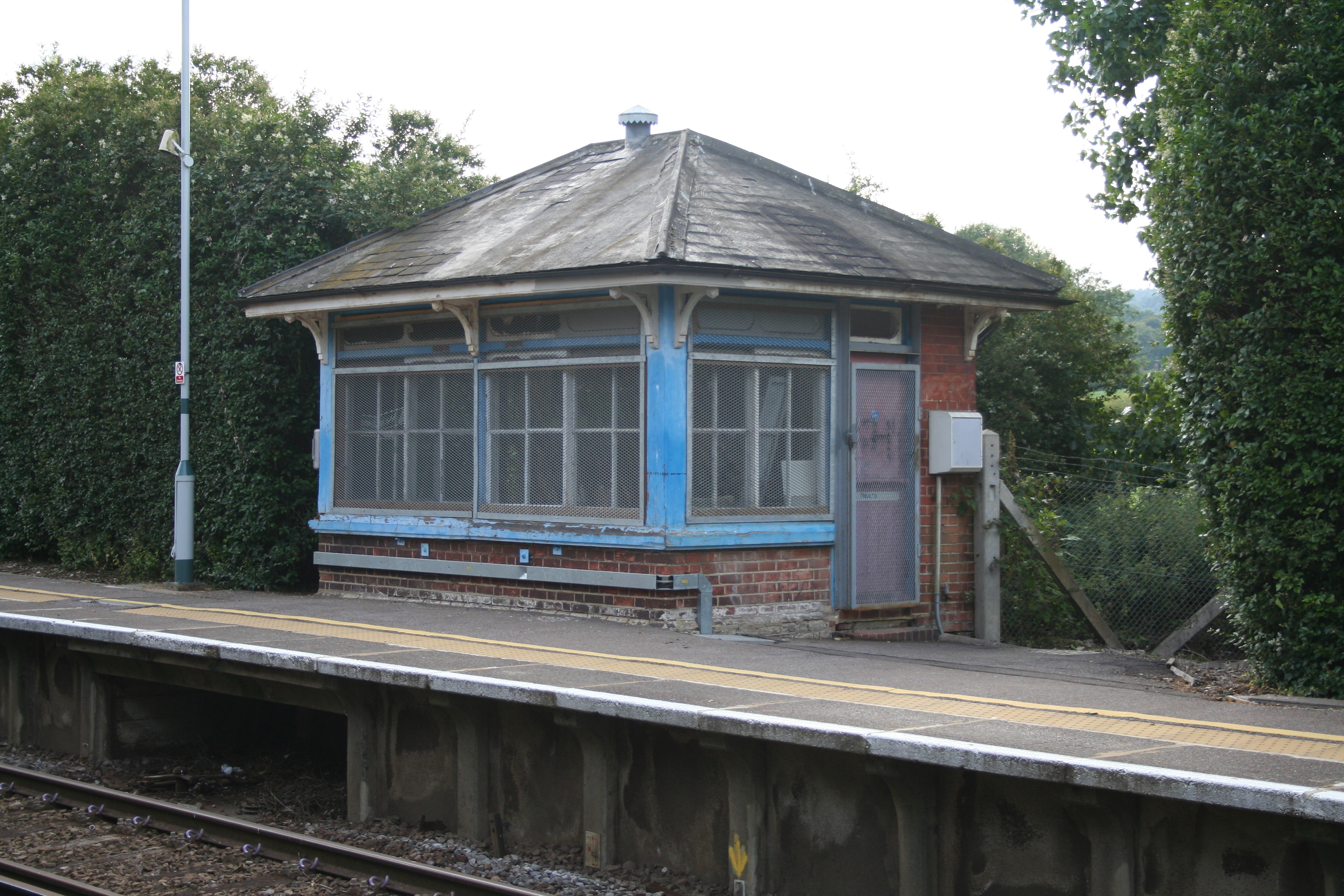 The disused signal box on the up platform at Holmwood. 13 July 2007.